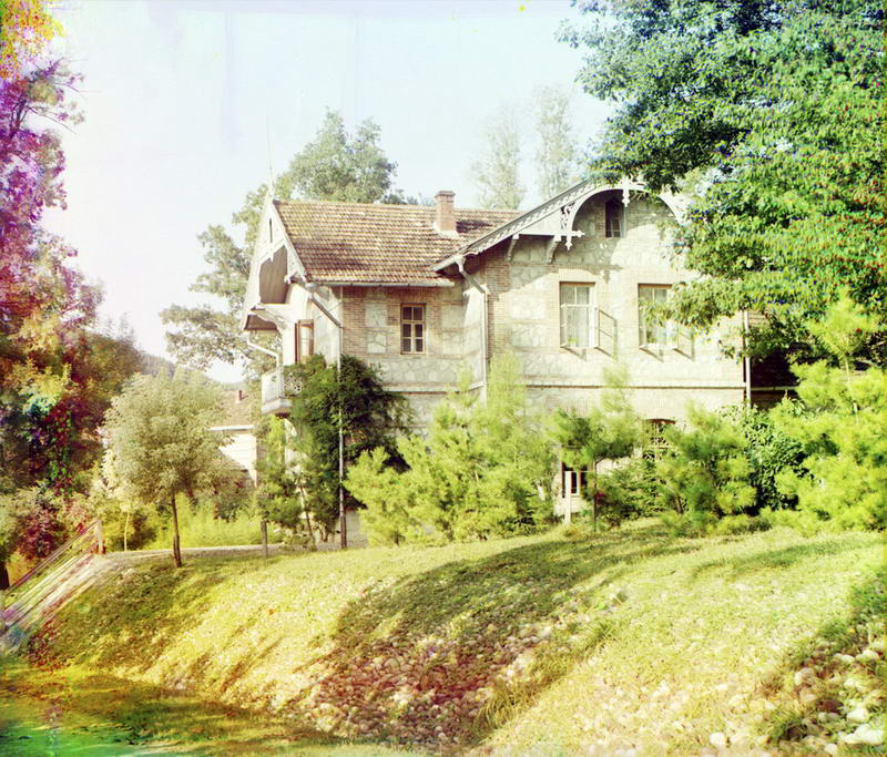 The Tsar's farm in Dagomys, Sochi, Russia